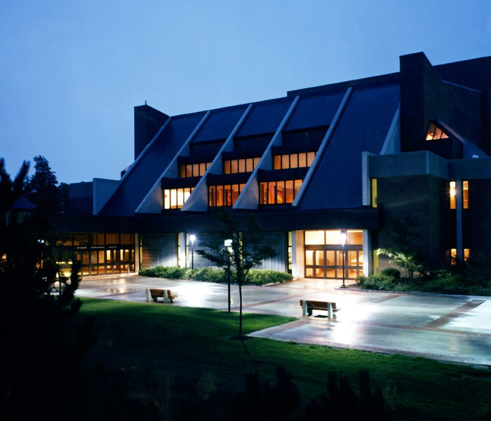 Exterior of Centre In The Square at night.